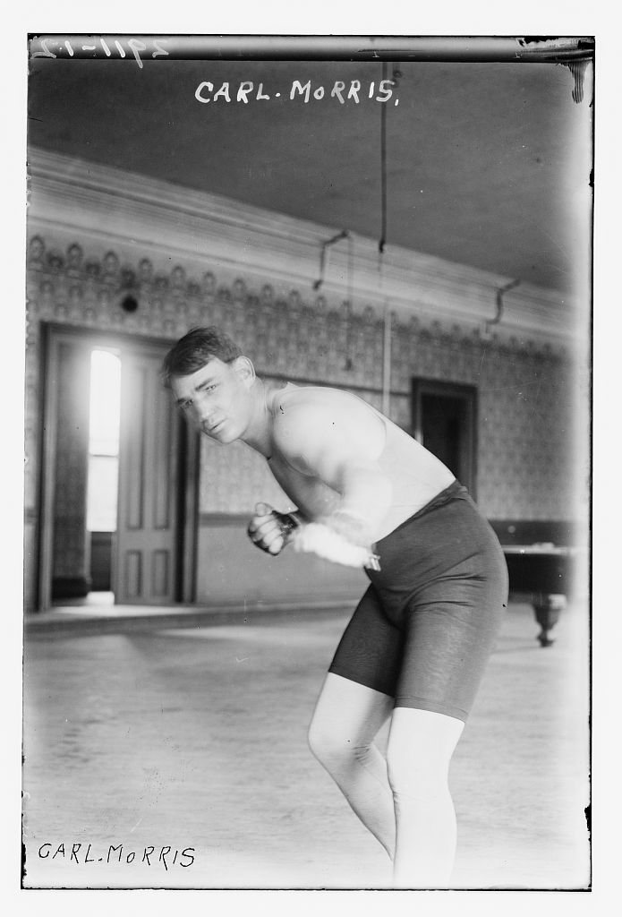 Carl Morris Carl Morris (1887-1951) was a bare knuckle boxer. He was a heavyweight, fighting at 225-240 ibs. He was 6ft 4 inches tall.Bain News Service,, publisher. Carl Morris between ca. 1910 and ca. 1915 1 negative : glass ; 5 x 7 in. or smaller. Notes: Title from unverified data provided by the Bain News Service on the negatives or caption cards. Forms part of: George Grantham Bain Collection (Library of Congress). Format: Glass negatives. Repository: Library of Congress, Prints and Photographs Division, Washington, D.C. 20540 USA, General information about the Bain Collection is available at Persistent URL: Call Number: LC-B2- 2911-12